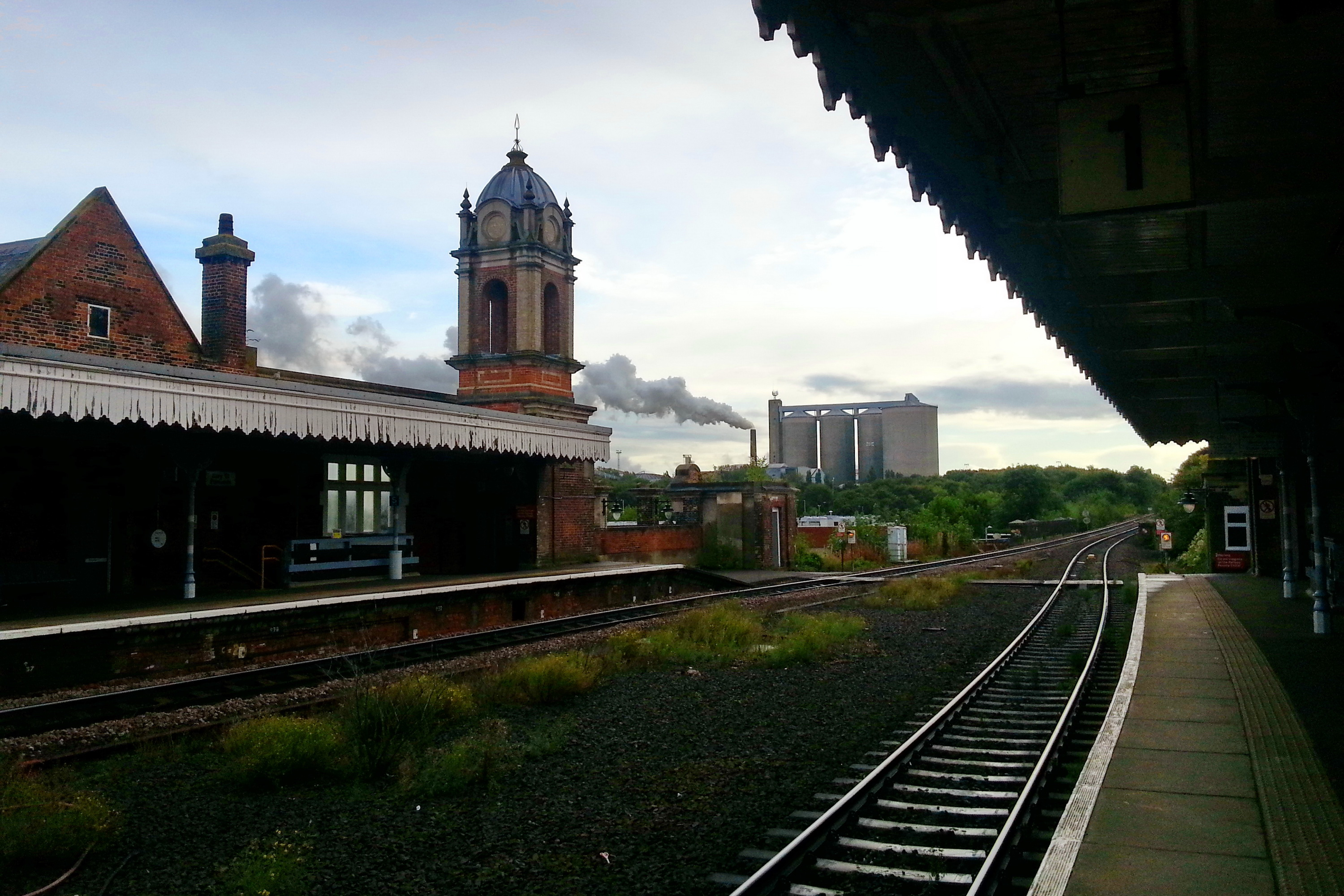 Bury St Edmunds railway station with the British Sugar factory at the backdrop.